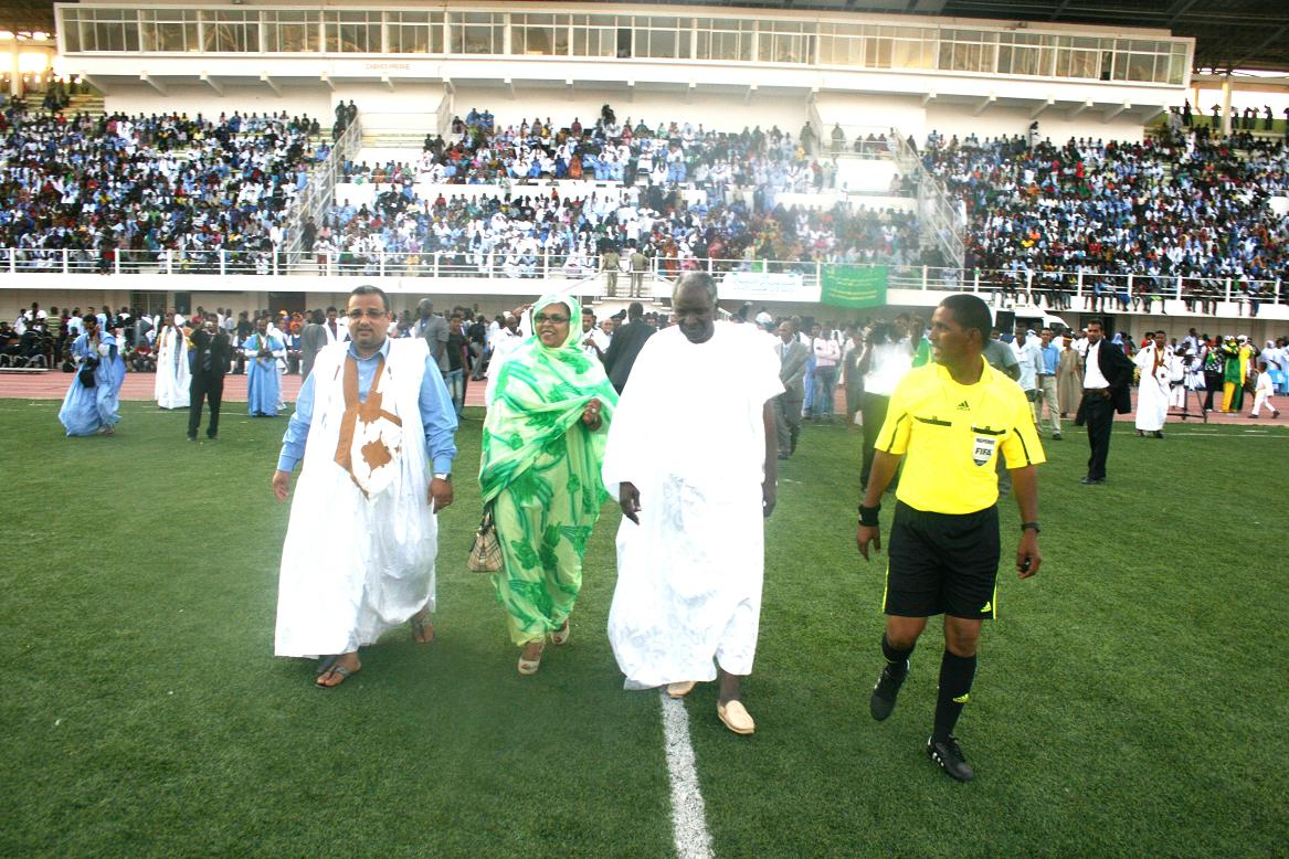 [Mohamed Foily] Full story